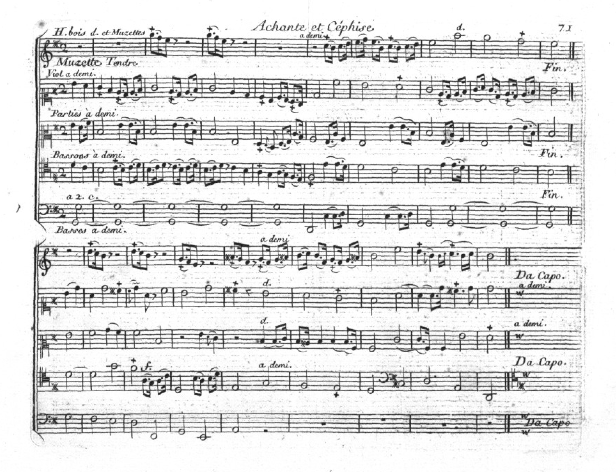 Jean-Philippe Rameau: Acanthe et Céphise (1751), Acte I, Musette tendre